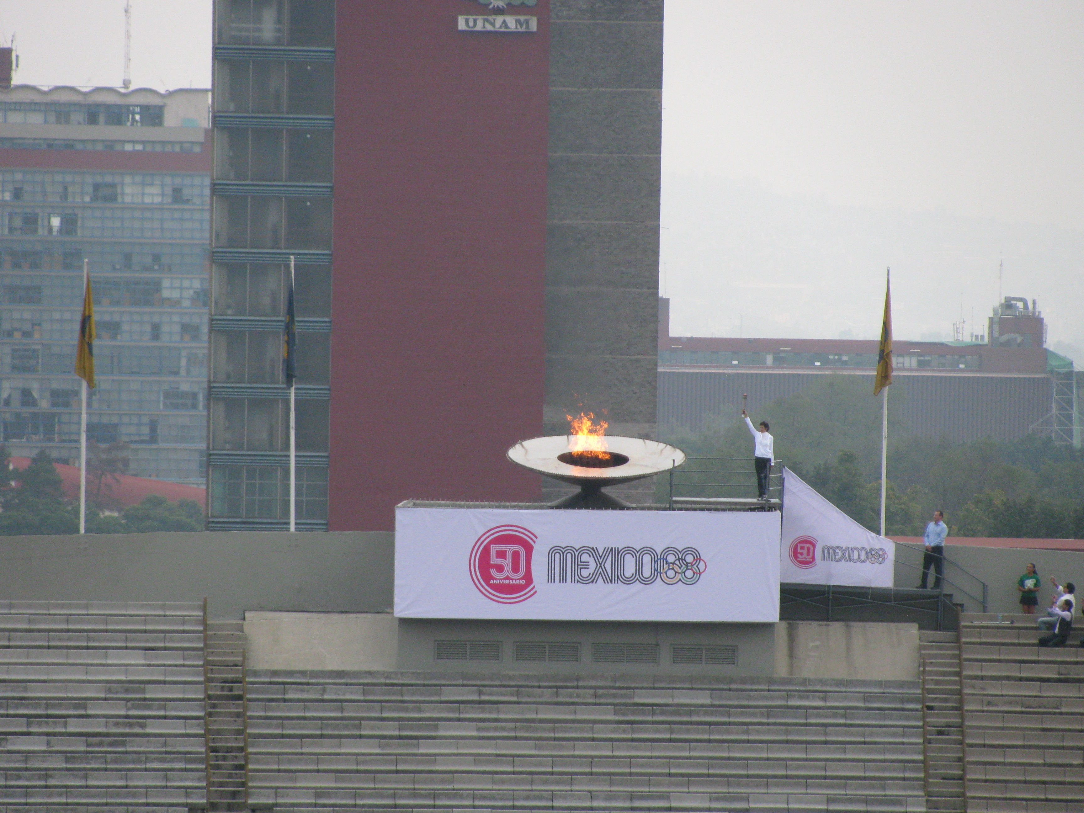 Enriqueta Basilio with the lighted cauldron. Event to commemorate the 50th anniversary of the 1968 Olympic Games in Mexico. University Olympic Stadium, Mexico City, Mexico.